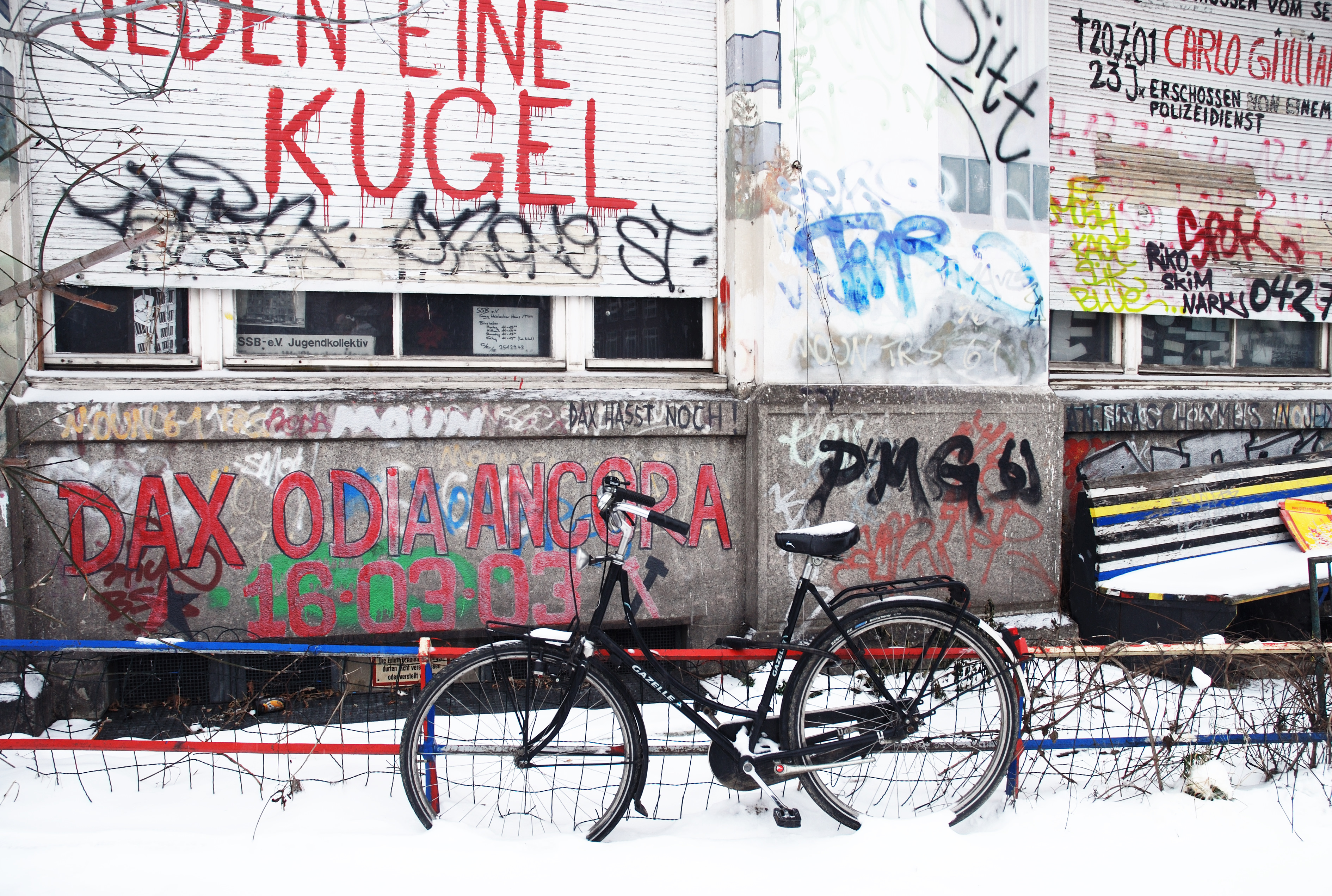 Graffiti in the Kreuzberg district, Berlin, mentioning "Dax" (Davide Cesare), the antifascist activist that was killed in Milan in 2003.